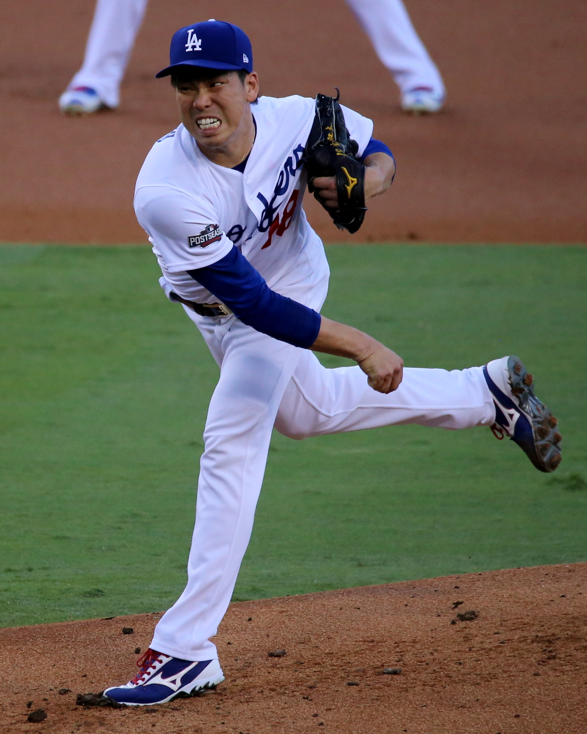 Dodgers starter Kenta Maeda delivers a pitch during the first inning of #NLCS Game 5.